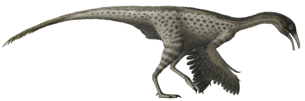 Harpymimus restoration, • Based proportionally on a skeletal reconstruction by Jamie Headden. • Three specimens of Ornithomimus preserve evidence of feathers, including evidence of pennaceous feathers on the arms.[1] This image goes under the assumption that Harpymimus were also covered in feathers. • This image is not necessarily meant to imply egg snatching behaviour. • The colours and/or patterns, as with nearly all reconstructions of prehistoric creatures, are speculative. References ↑ (2012). "Feathered Non-Avian Dinosaurs from North America Provide Insight into Wing Origins". Science 338 (6106): 510. NOTE: I often update my images. If you want to have any of my images on a website, please (if possible) don’t host/save it to the website server. I’d prefer it if the image's Wikimedia URL is used. This means that if I update an image, it will be updated on the site as well. Thanks.